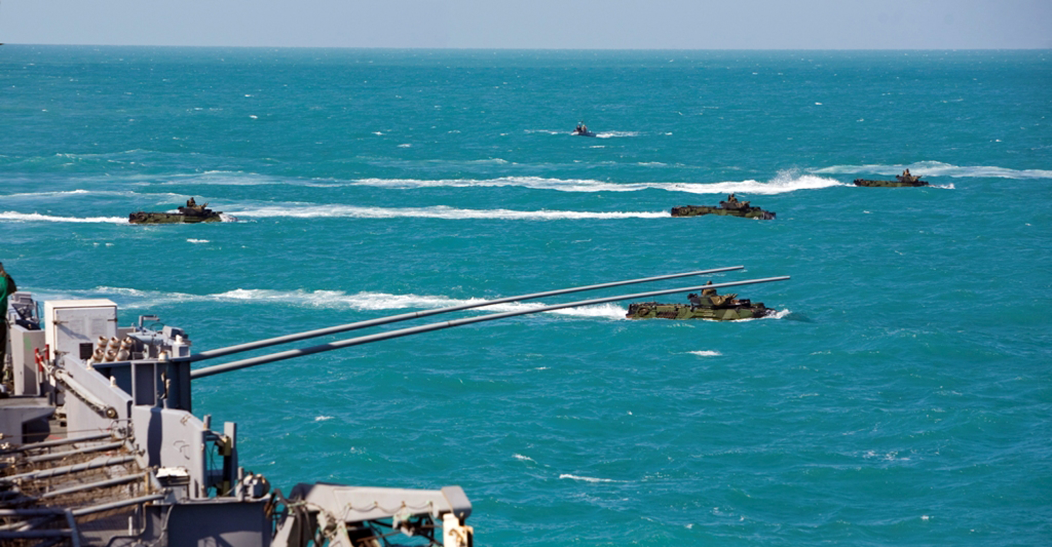 PERSIAN GULF - Amphibious assault vehicles with Battalion Landing Team 2/4 launch from USS Cleveland to return to USS Rushmore during a training operation with the 11th Marine Expeditionary Unit here Nov. 22. Marine Corps photo by Cpl. Shawn M. Spitler